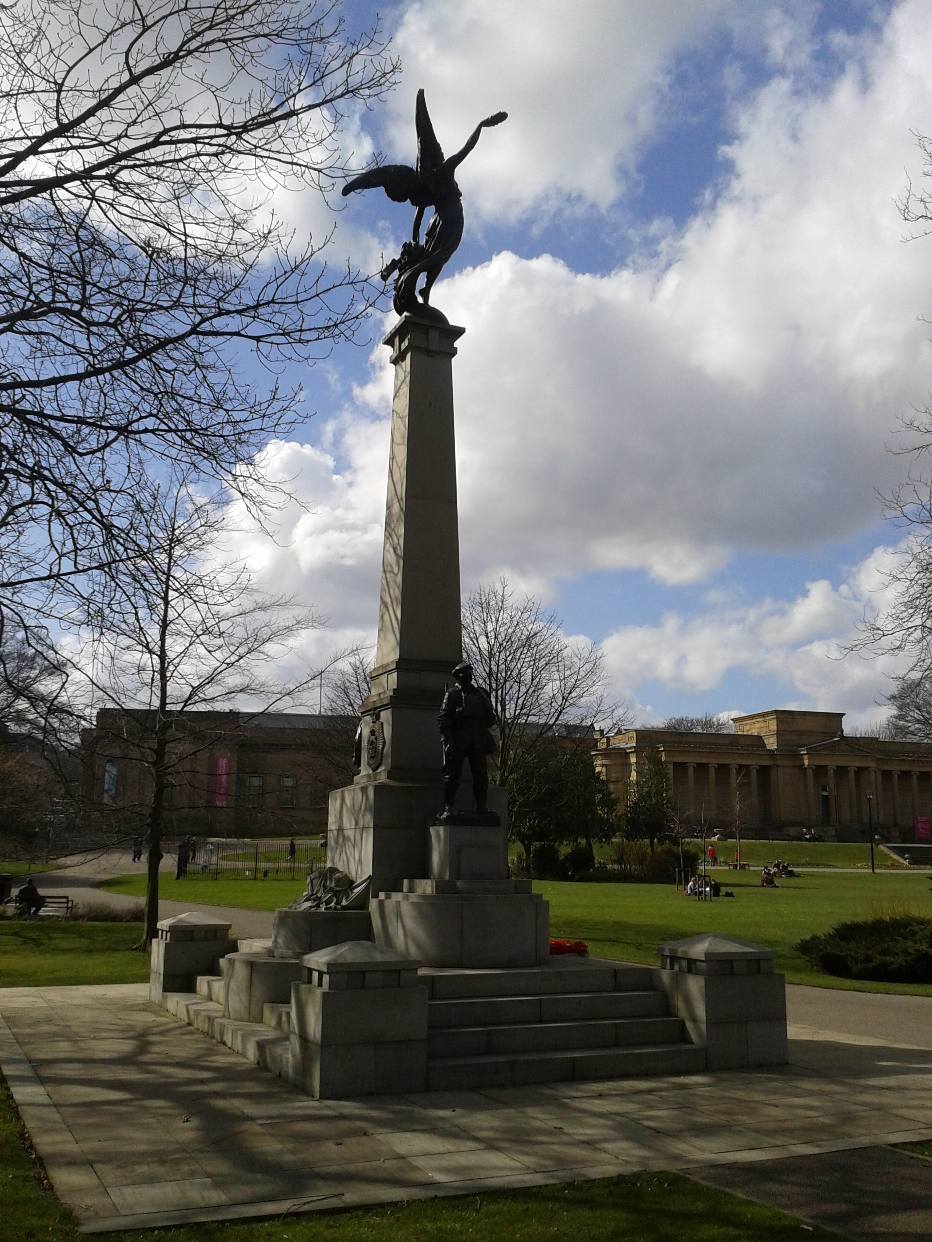 World War I memorial in Weston Park, Sheffield. Also commemorates World War II.